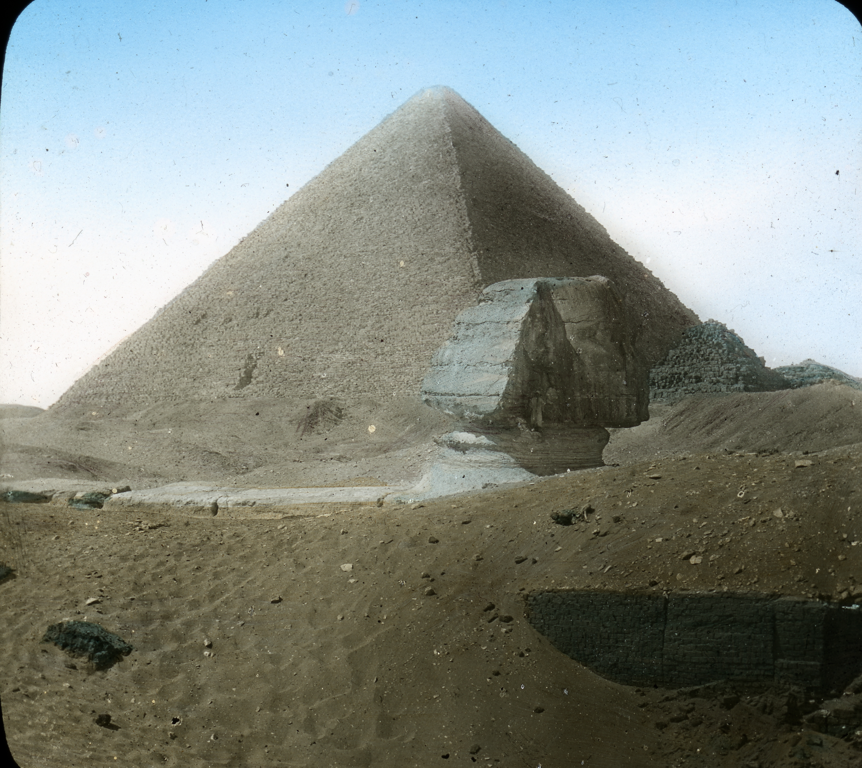 Lantern Slide Collection: Views, Objects: Egypt. Gizeh [selected images]. View 05: Sphinx and Pyramids., n.d., T.H. McAllister, Manufacturing Optician. 49 Nassau Street, New York. Brooklyn Museum Archives (S10-08 Gizeh, image 9613).